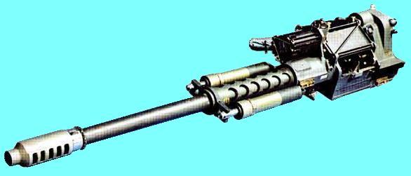 M230 chain gun autocannon used on U.S. Army AH-64 Apache